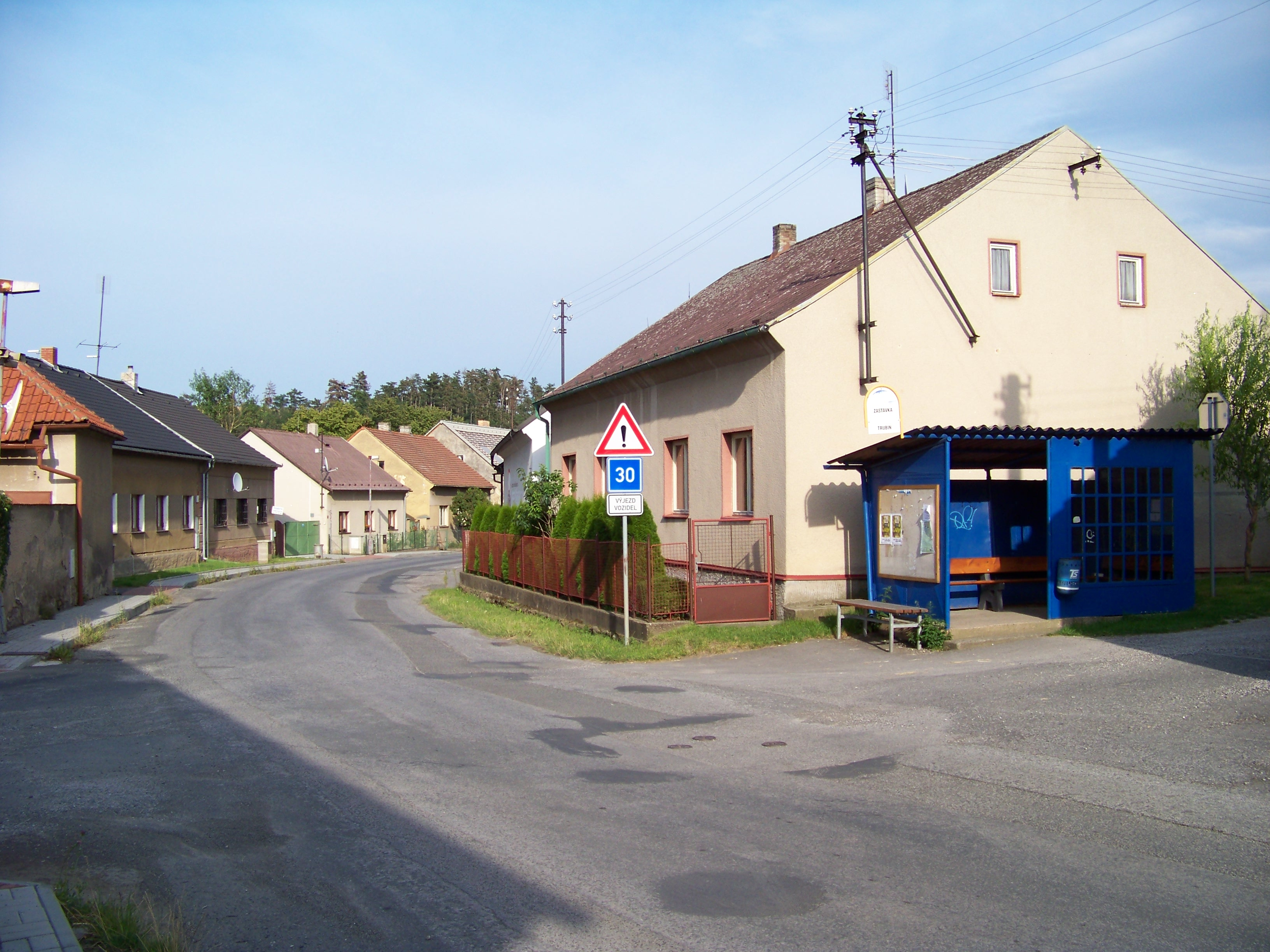 Trubín, Beroun District, Central Bohemian Region, the Czech Republic.